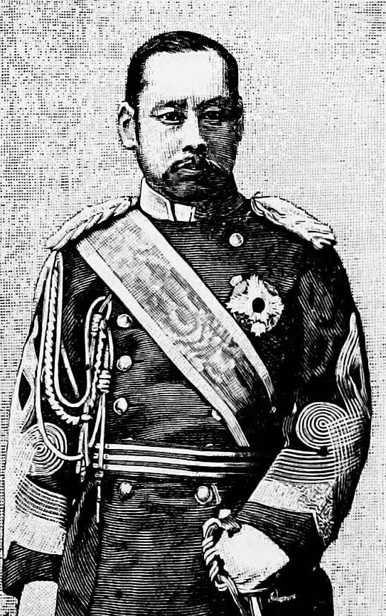 H.I.H. Prince Arisugawa; Chief of the General Staff